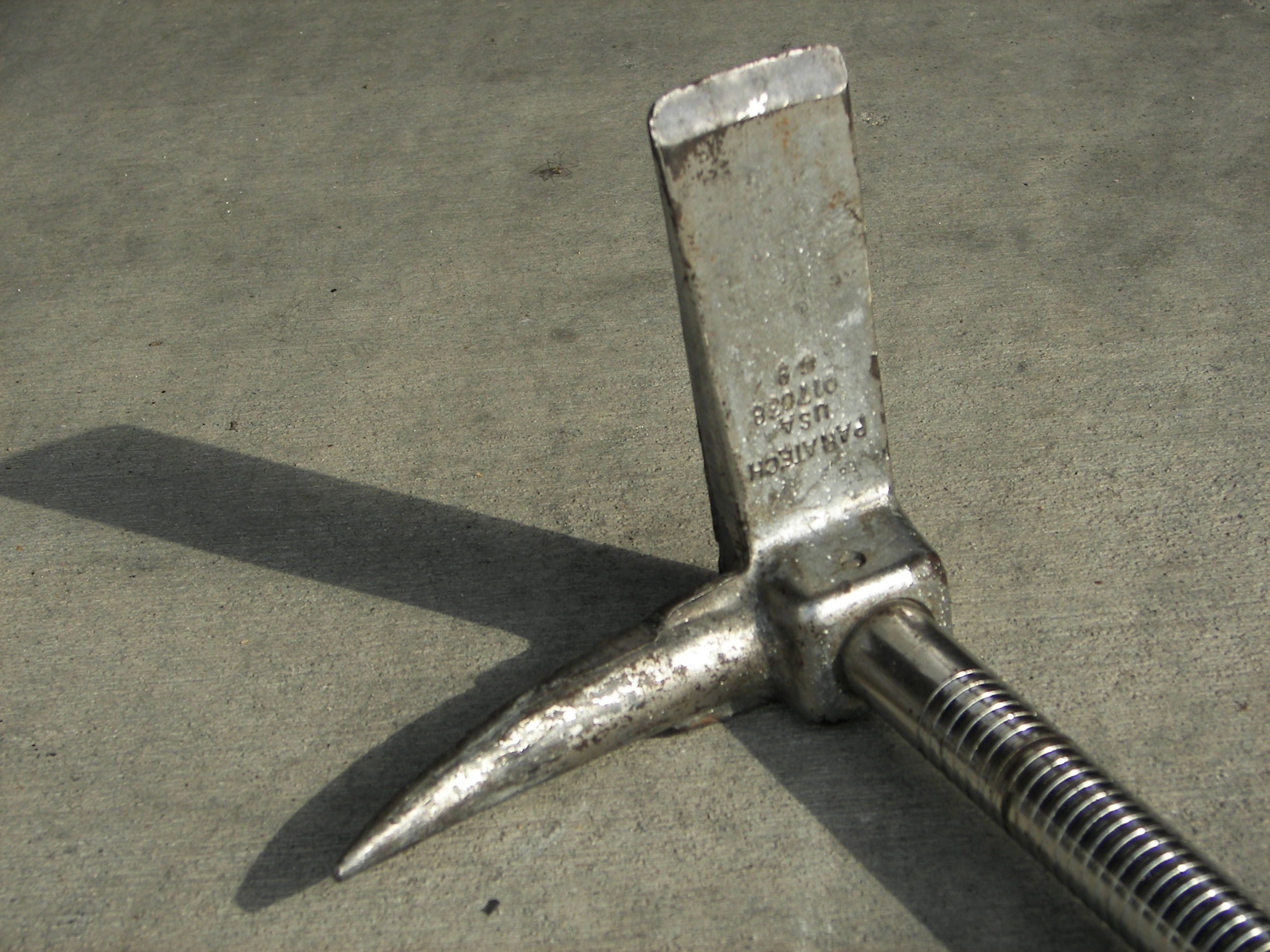 The adz and pick end of a common Hooligan bar this tool is designed by Paratech Incorporated found here. This tool is commonly mistaken as a Halligan Tool that was created by Hugh Halligan of FDNY. THIS IS NOT A HALLIGAN! A true halligan is a single piece of forged steel. This is a pinned version. Not a true halligan